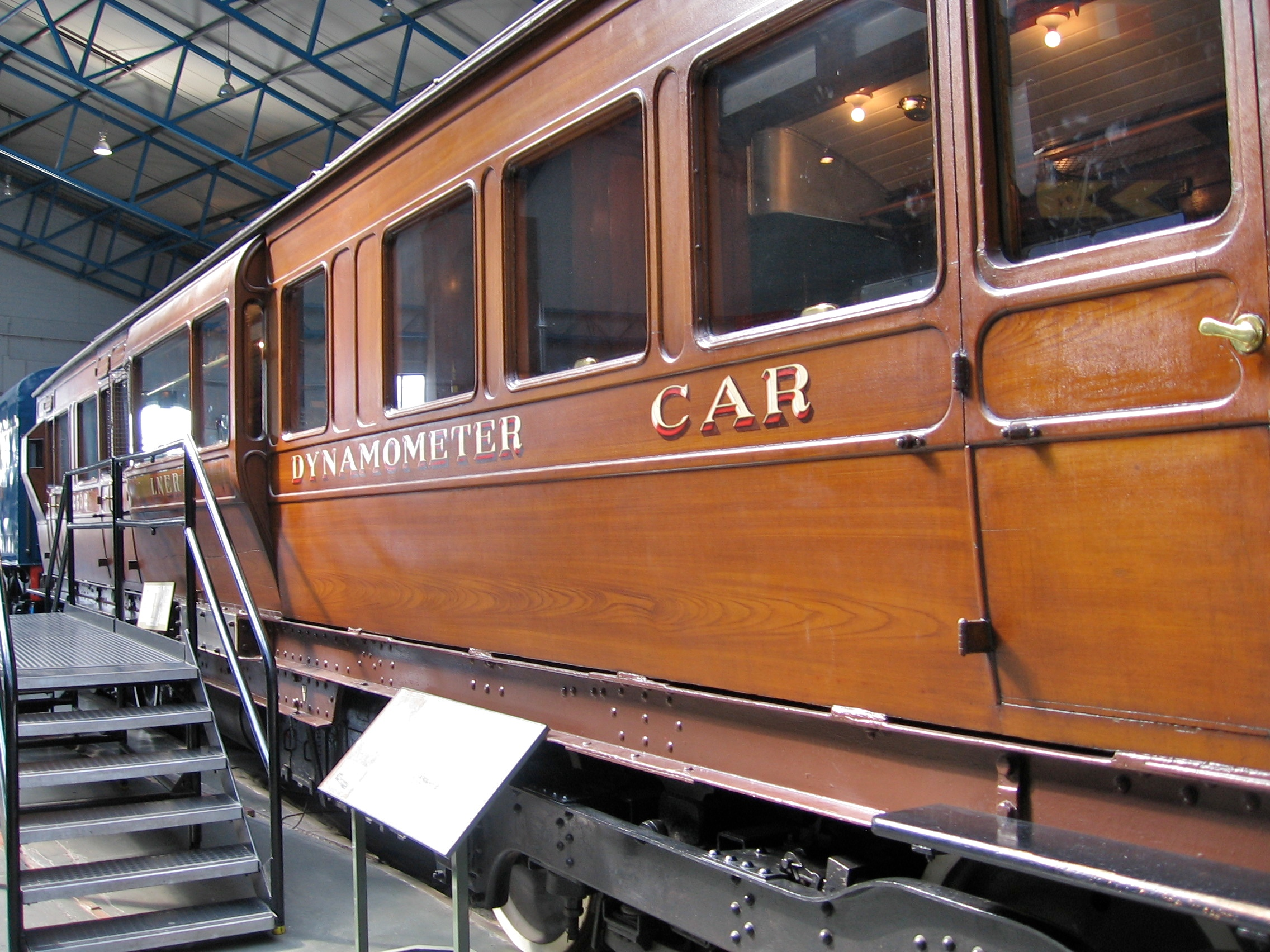 Dynamometer car